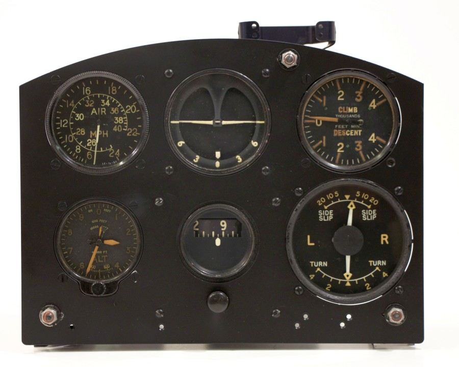 A re-manufactured BFP (Blind Flying Panel) for a W.W.II Lancaster Bomber made by myself and incorporated into my main Instrument Panel. This panel is reproduced in 2024 T3 Al.